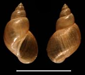 photo of apertural and abapertural view of the shell of Galba cubensis, synonym: Fossaria cubensis.